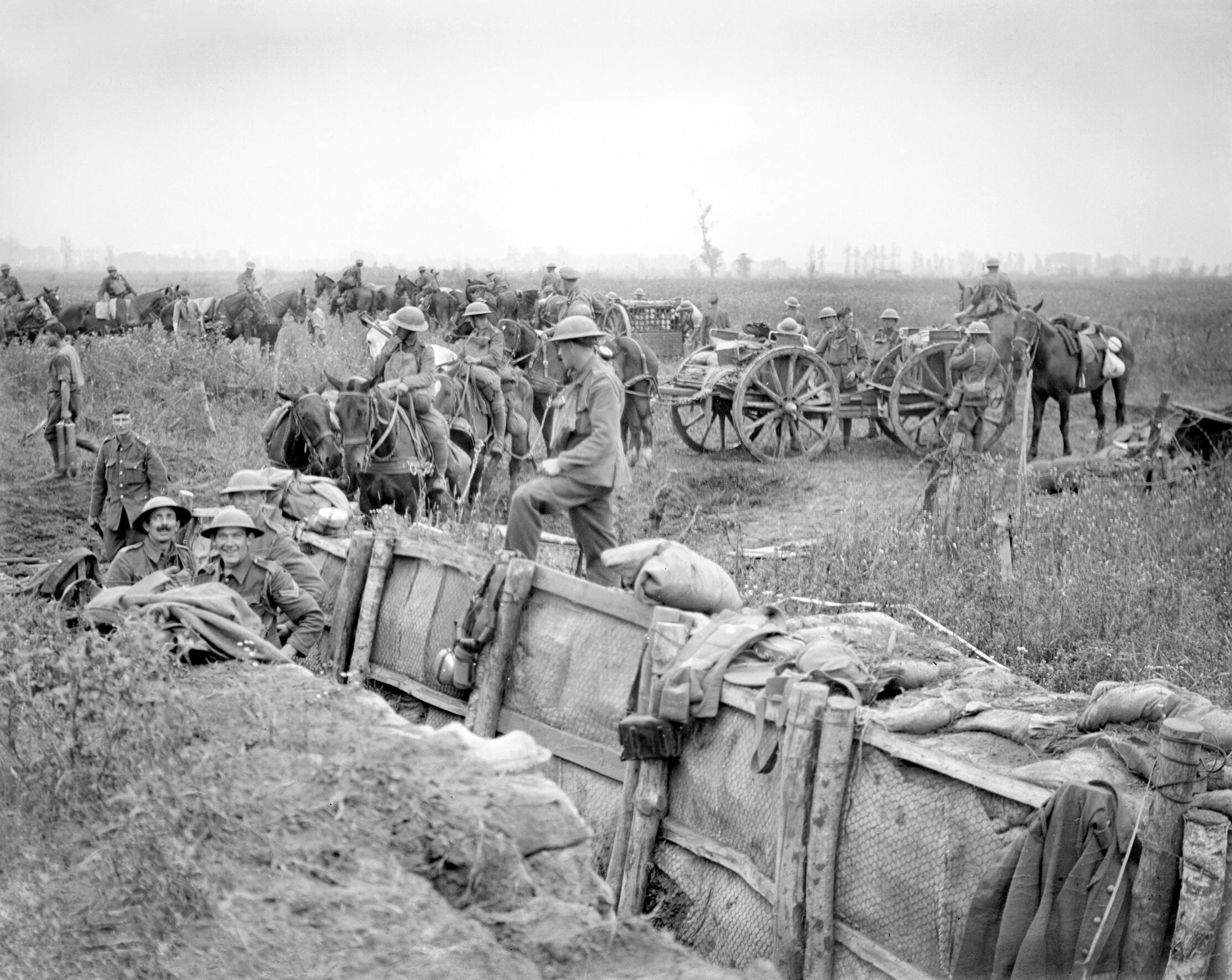 THE THIRD BATTLE OF YPRES The Battle of Pilckem Ridge : A British 18 pounder field gun battery taking up new positions close to a communication trench near Boesinghe, 31 July 1917.